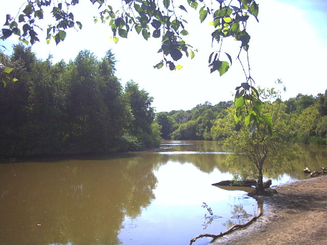 King's Mere, Putney Heath.